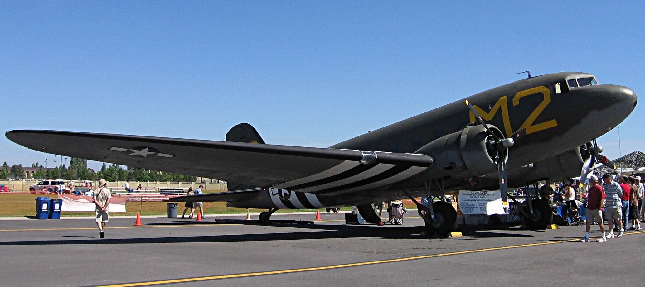 A C-53D "Skytrooper" military transport aircraft, photographed at the Spokane Skyfest air show.